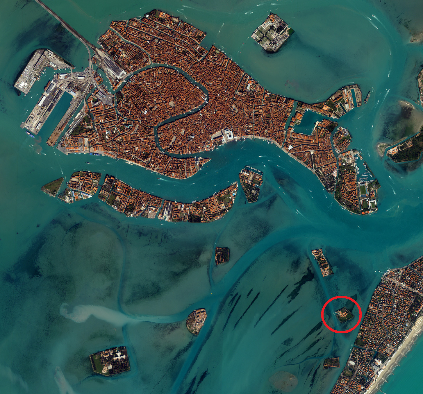 source: by Robert Simmon, NASA’s Earth Observatory